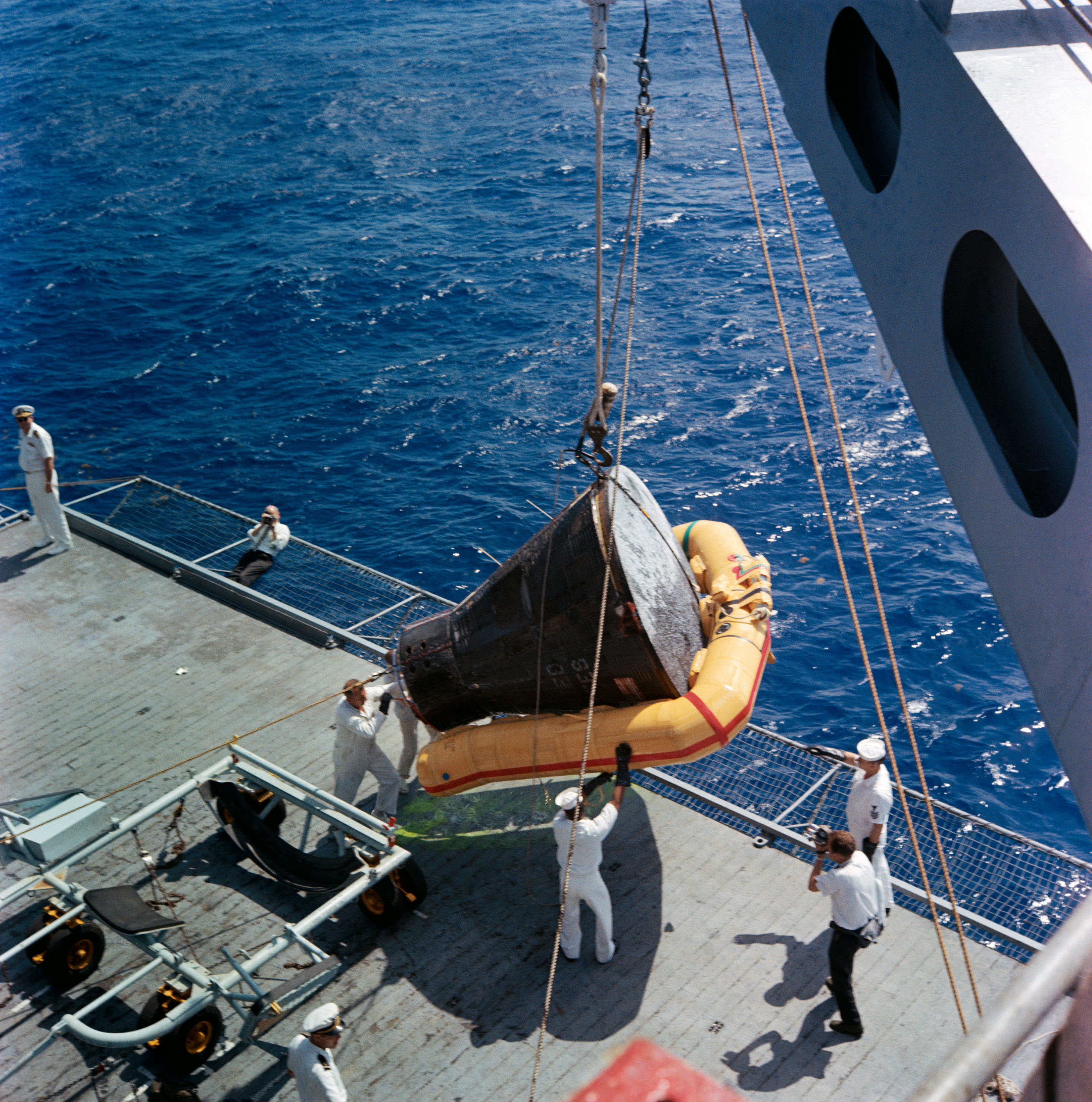 The Gemini-4 (GT-4) spacecraft is hoisted aboard the recovery ship USS Wasp during recovery operations following the successful four-day mission.